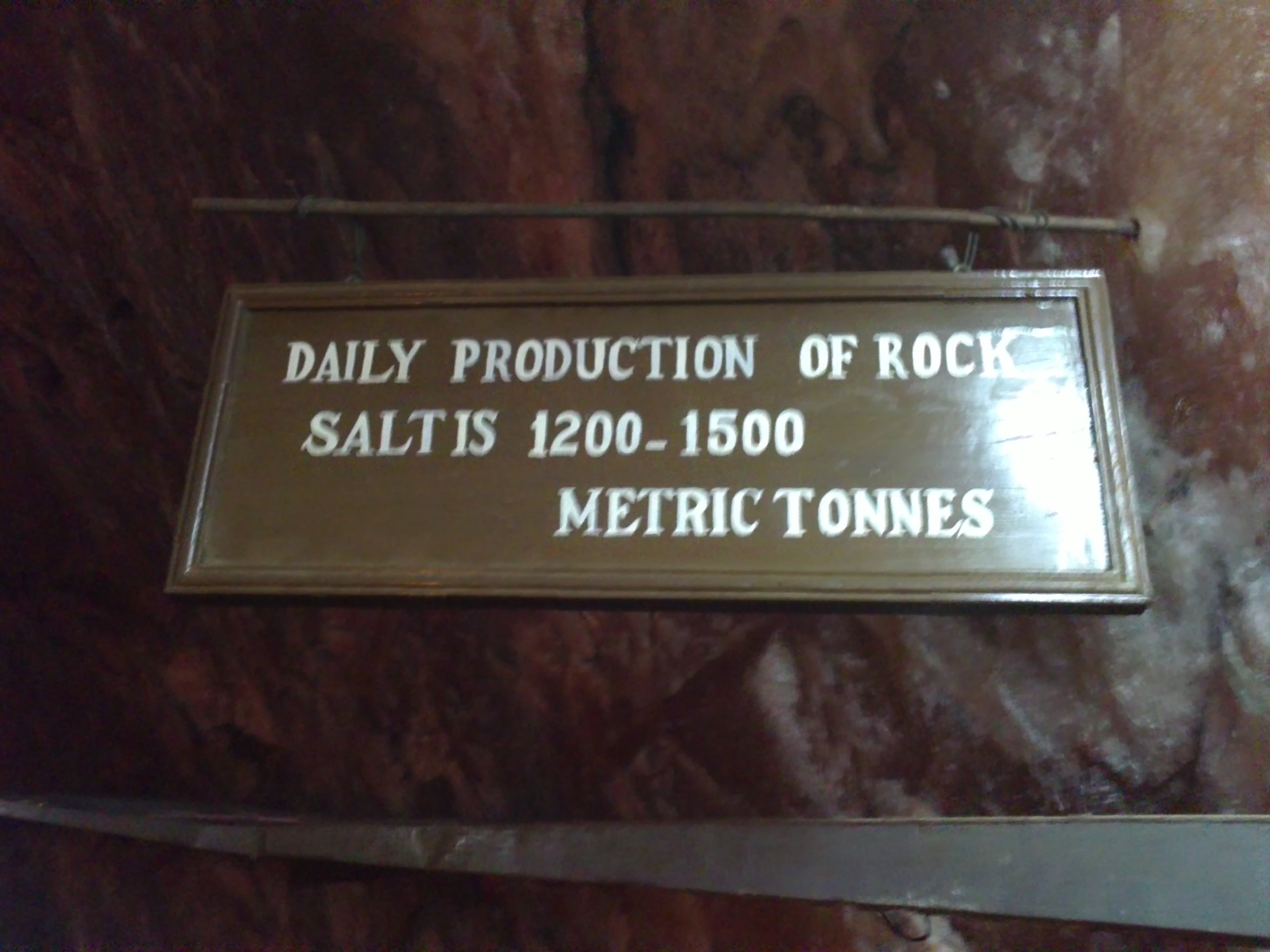 Pics From My Visit To Hari Pur, Khewra And Kallar Kahar